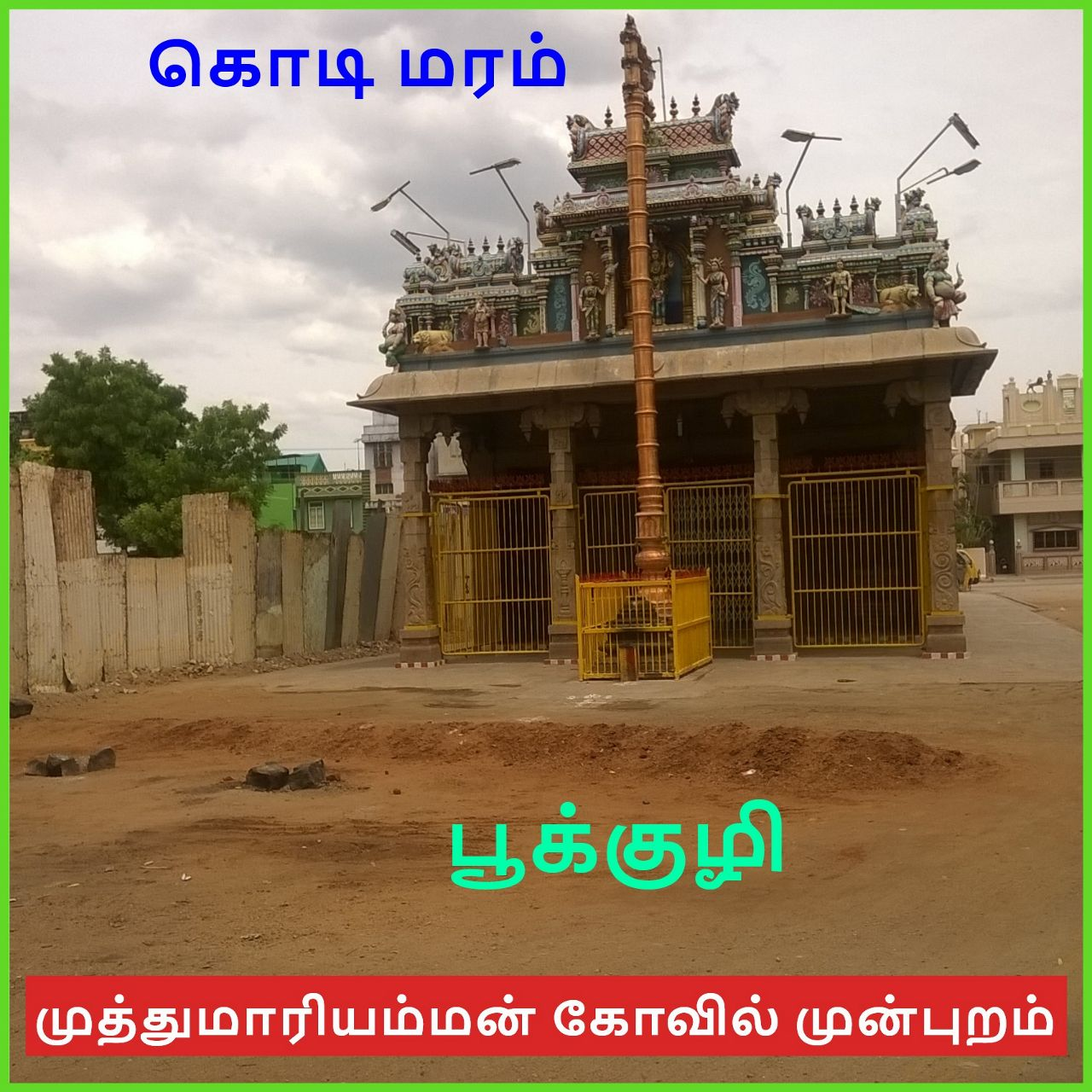 Image of the front view of Muthumariamman temple at Aruppukottai